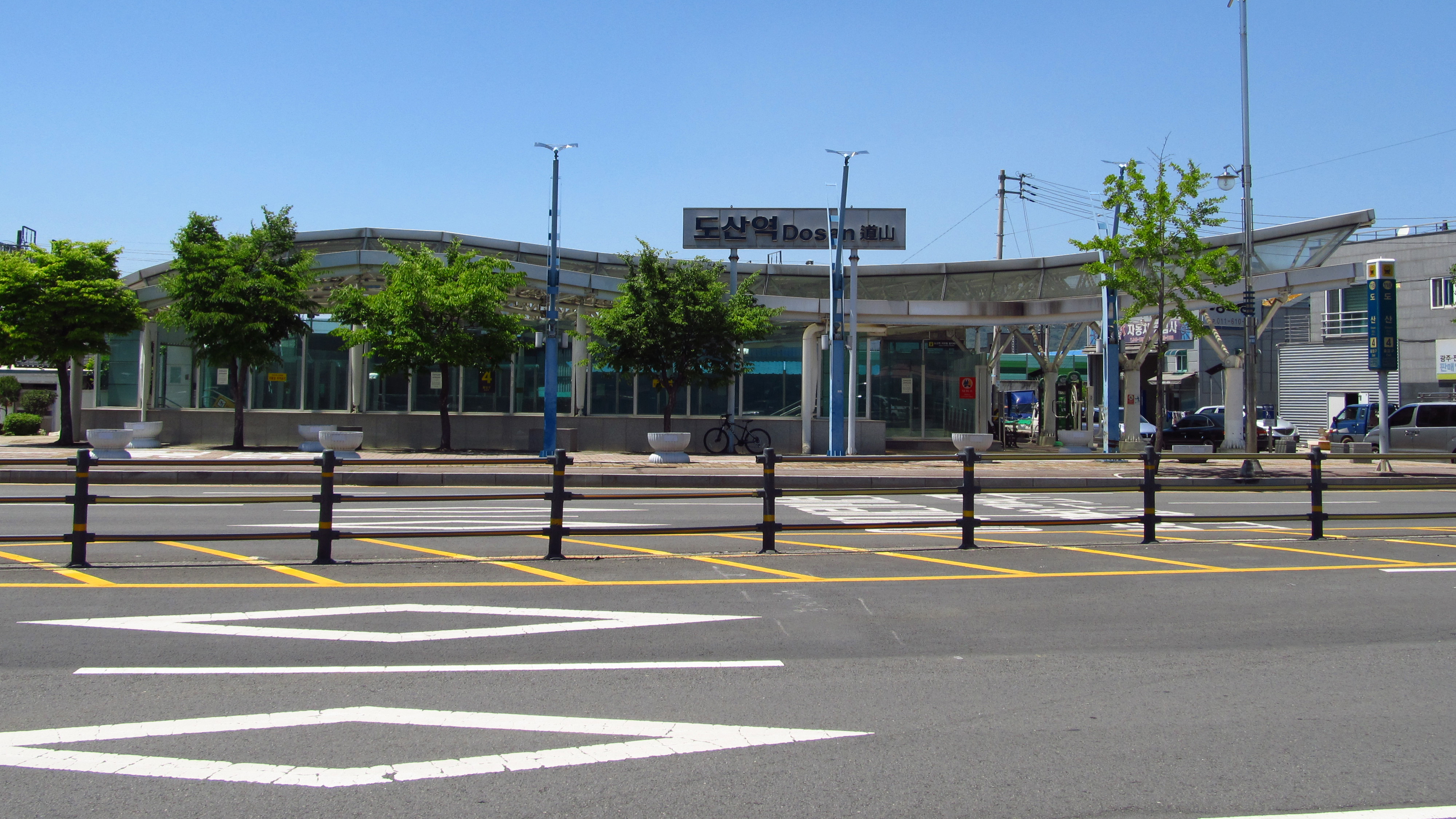 The building of Dosan Station on Gwangju Metro Line 1 in Gwangsan-gu, Gwangju, Republic of Korea(South Korea)